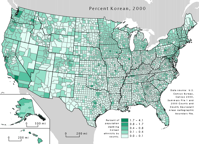 Diagram indicating Korean American settlement in the United States. Image as based on the census 2000 by the U.S. Census Bureau.